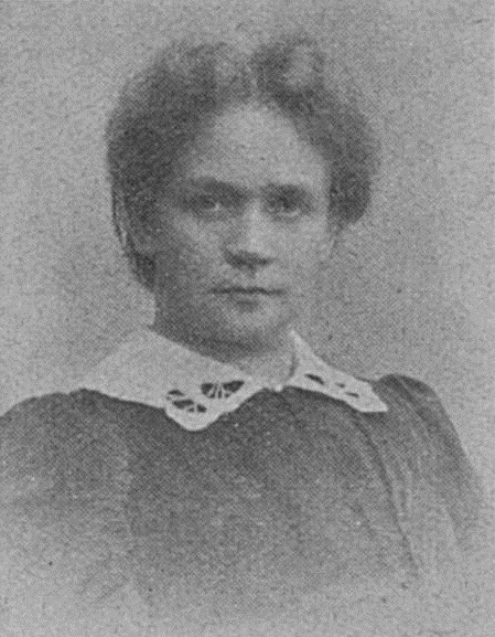 The Finnish actor and speaker Olga Poppius (1866-1939)